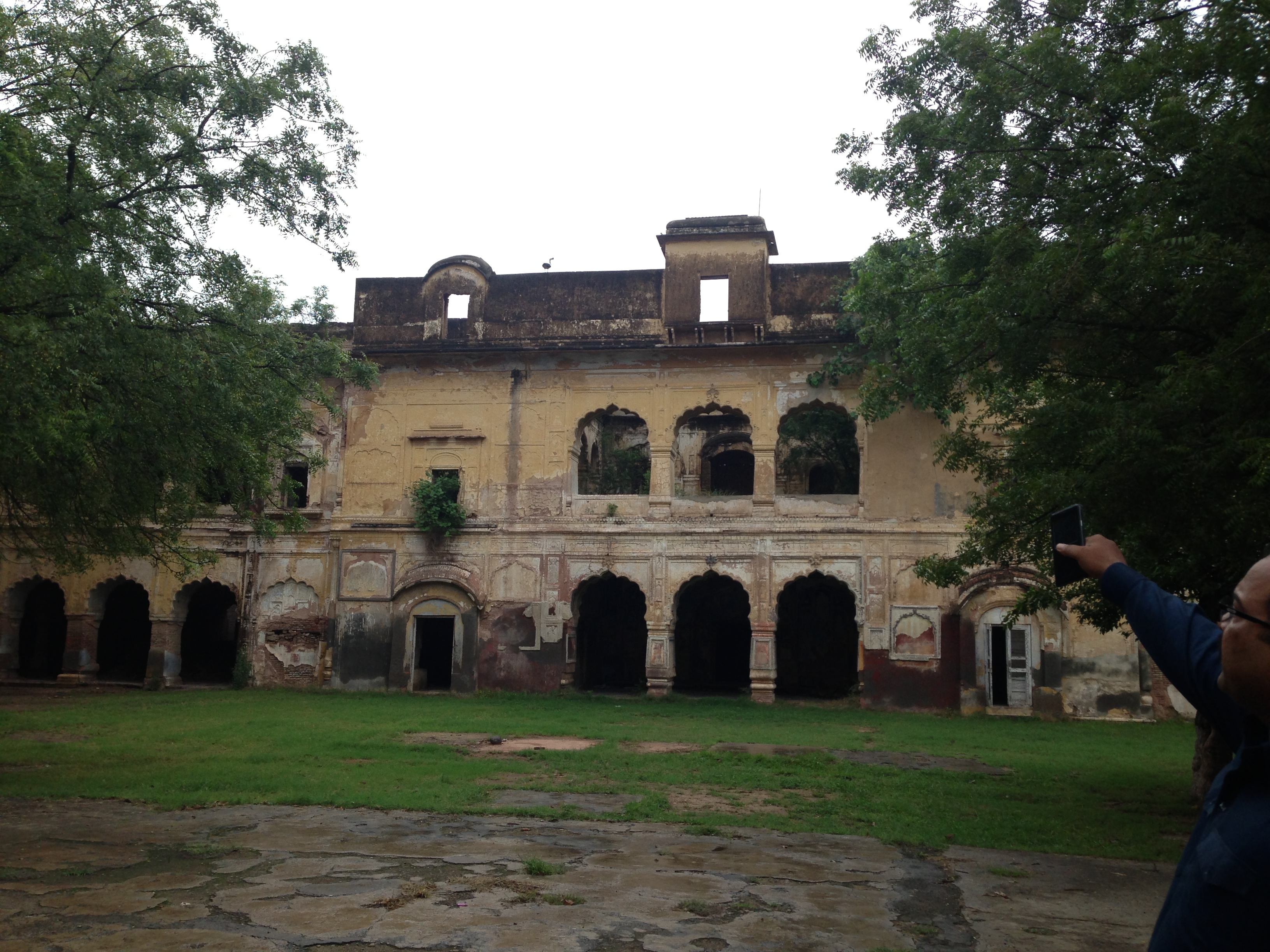 Bahdurgarh Fort is a historical fort built in 11685 CE by Nawab Saif Khan and rebuilt by Mahraja Karam Singh of Patiala Princely in 1837. It is about 7-8 kms from main city and is agrand building, part of which is for public display and part with the Govt.